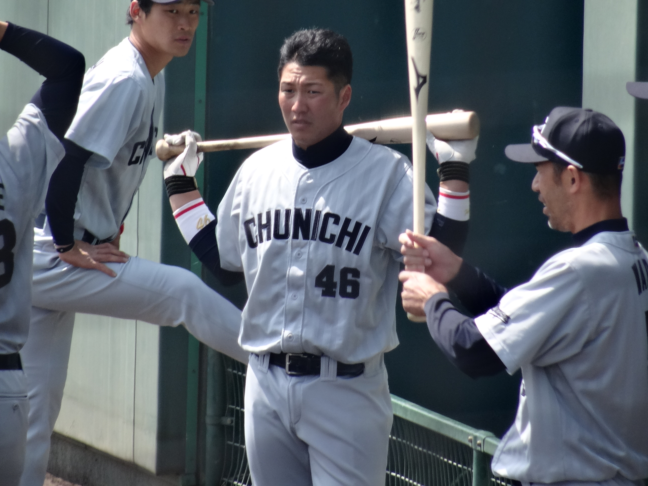 Takuto Fujisawa, infielder of the Chunichi Dragons, at Hanshin Naruohama Baseball Ground.